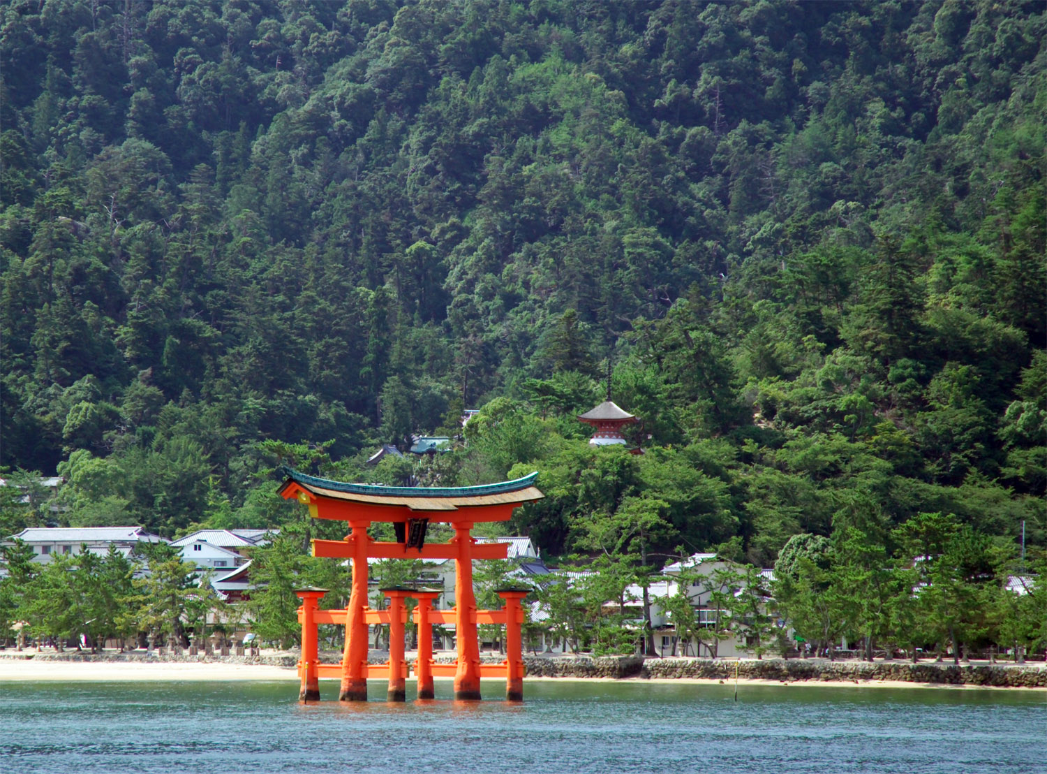 The torii of Itsukushima Shrine rises above the waters of the Inland Sea against the forested background of the town of Miyajima, Hiroshima Prefecture, Japan. I took this photo and contribute my rights in the file to the public domain; individuals and organizations retain rights to images in it.